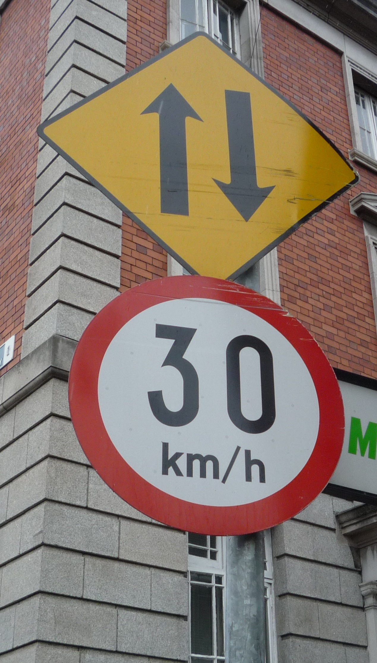 Irish 30 kph speed limit sign and warning two-way traffic sign in Dublin, Ireland, 2009